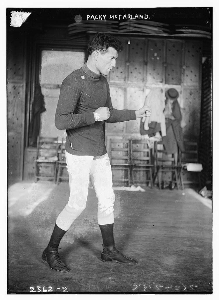 Packy McFarland (LOC) Bain News Service,, publisher. Packy McFarland [between 1910 and 1915] 1 negative : glass ; 5 x 7 in. or smaller. Notes: Title from unverified data provided by the Bain News Service on the negatives or caption cards. Forms part of: George Grantham Bain Collection (Library of Congress). Subjects: Boxing Format: Glass negatives. Repository: Library of Congress, Prints and Photographs Division, Washington, D.C. 20540 USA, General information about the Bain Collection is available at Persistent URL: Call Number: LC-B2- 2362-2